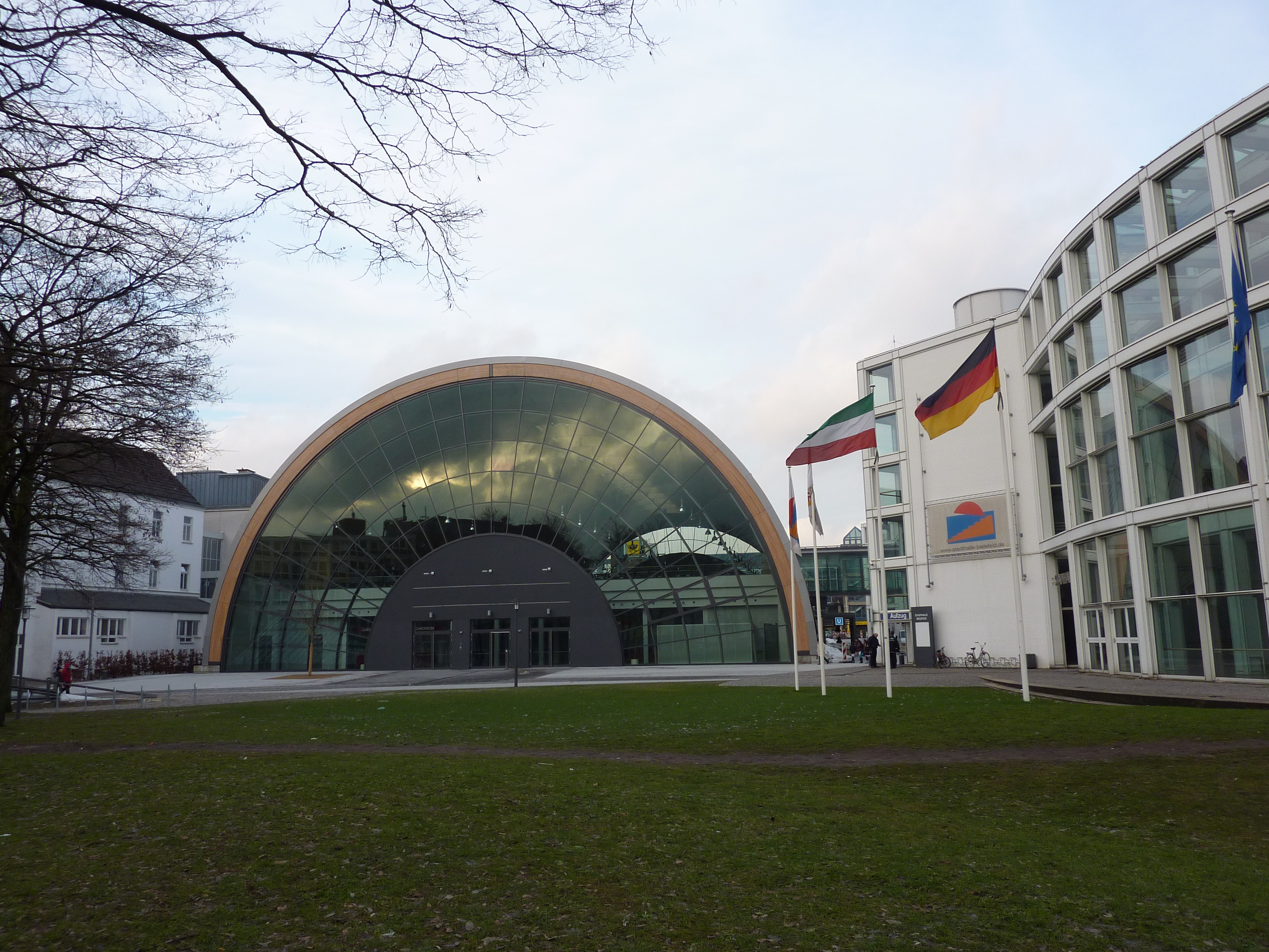 Extension of the Conference Center of Bielefeld Germany "Stadthalle Bielefeld" build in 2010 in the center; to the left the coinference Hotel; to the right the original Building of the conference center